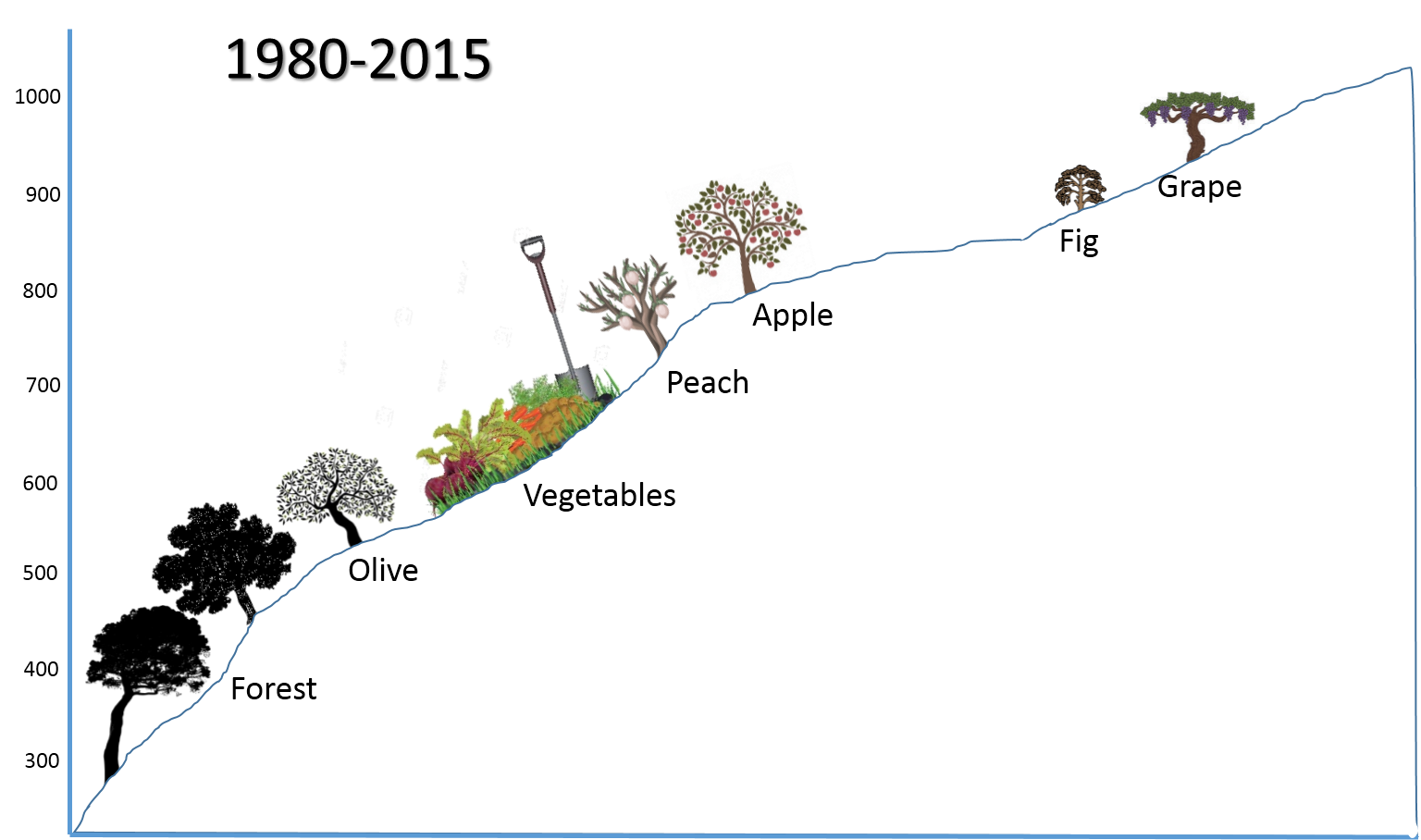 Current State of Agriculture in the village of Abadiyeh. Distribution of crops by Altitude